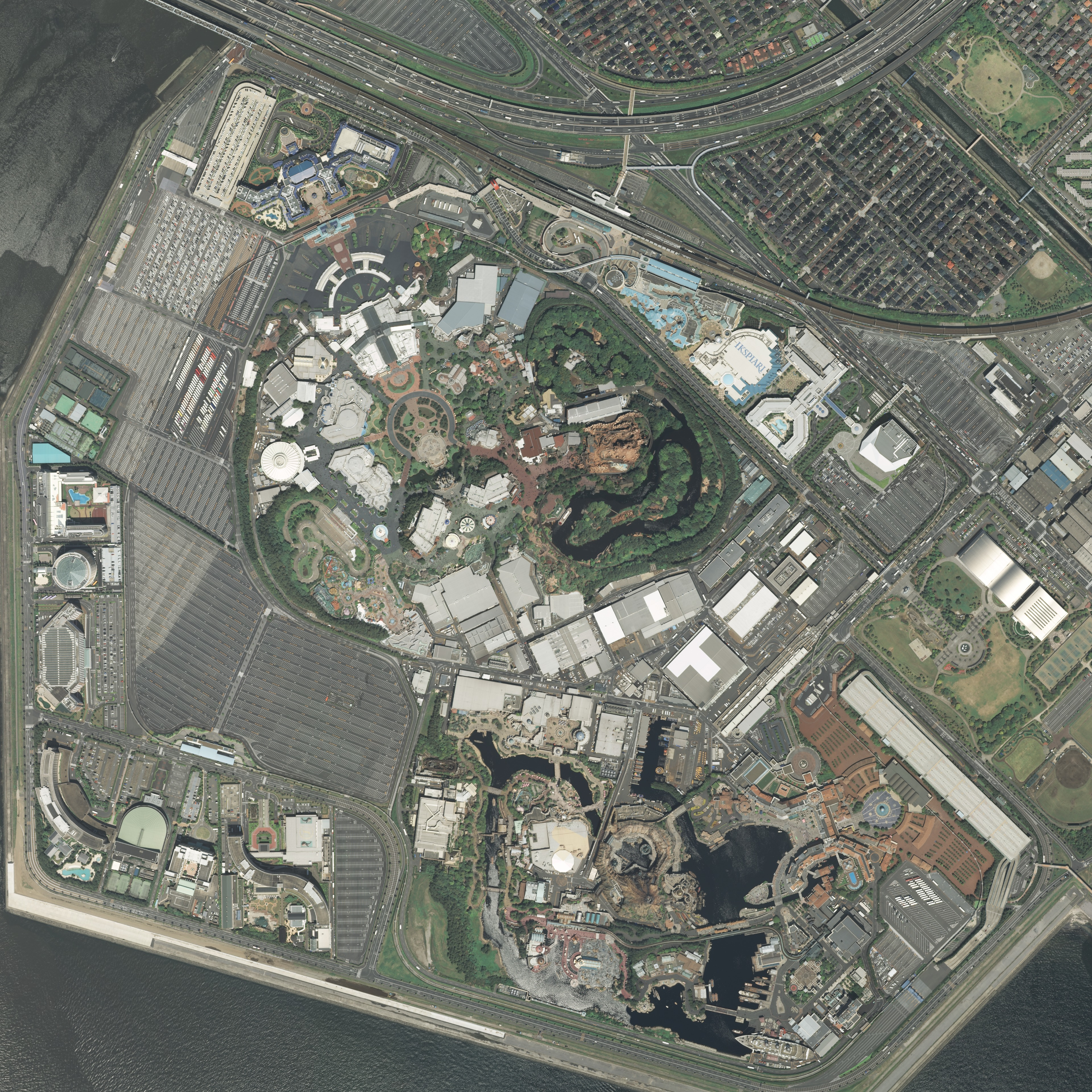 Around Tokyo Disney Resort, Maihama, Urayasu-shi, Chiba Prefecture, Japan, taken in 2009.